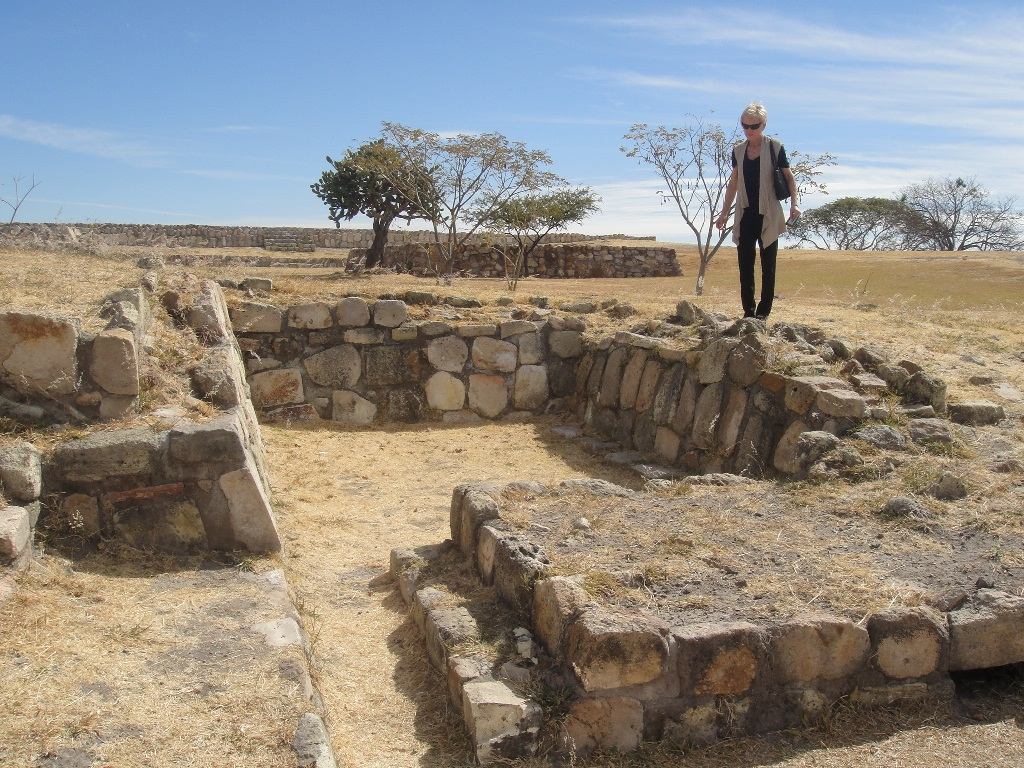 Template:Plazuelas structure west of caracoles